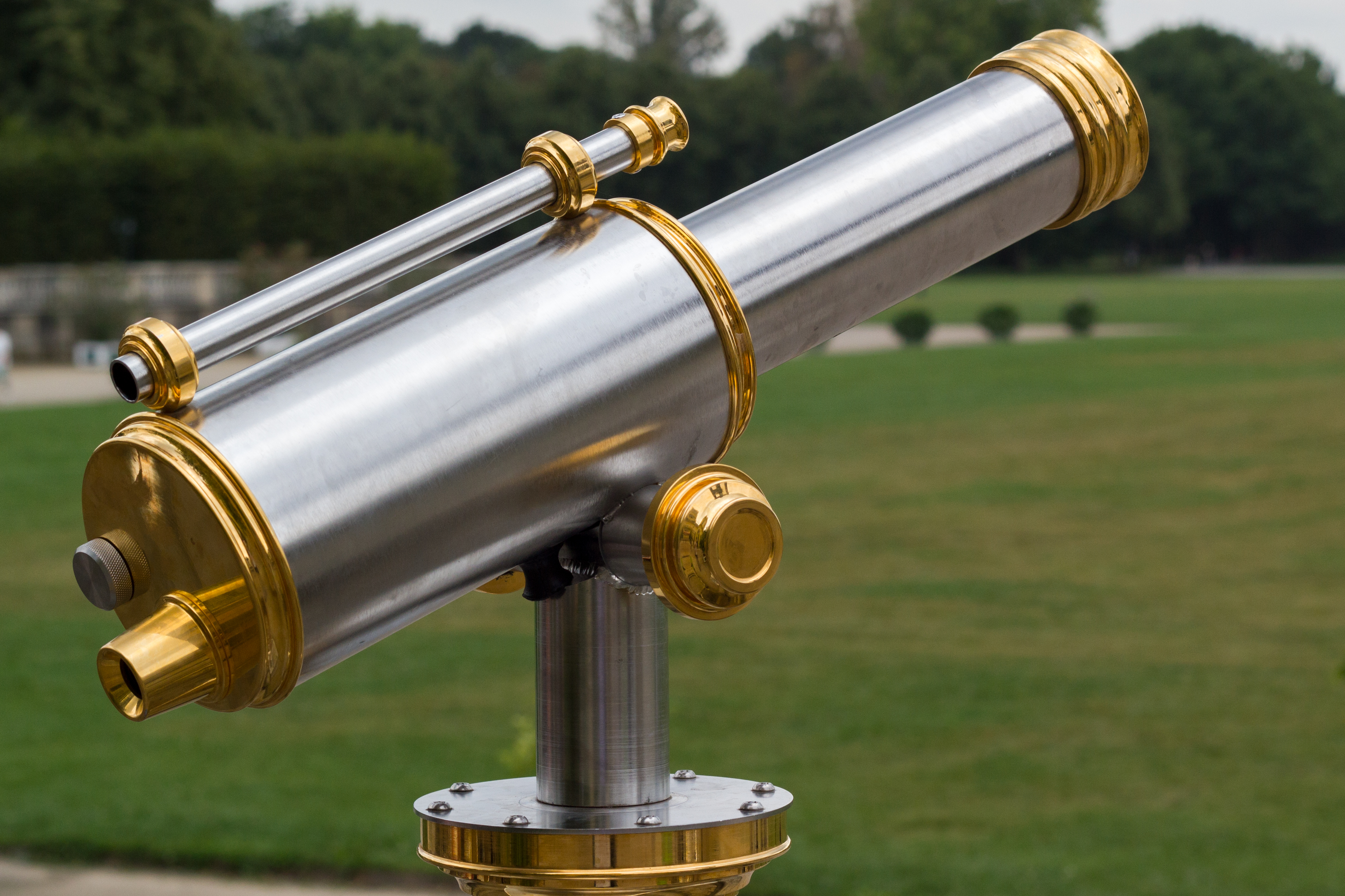 Public telescope at Orangerie Kassel, Germany